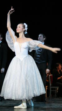 Ballerina Natalia Kolosova)